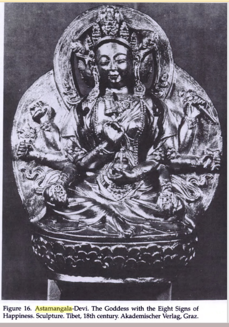 ASHTAMANGALA-DEVI (in sanskrit) : Eight symbol-bearing goddesses, known in Tibetan as Tashi-lhamo Gyal.